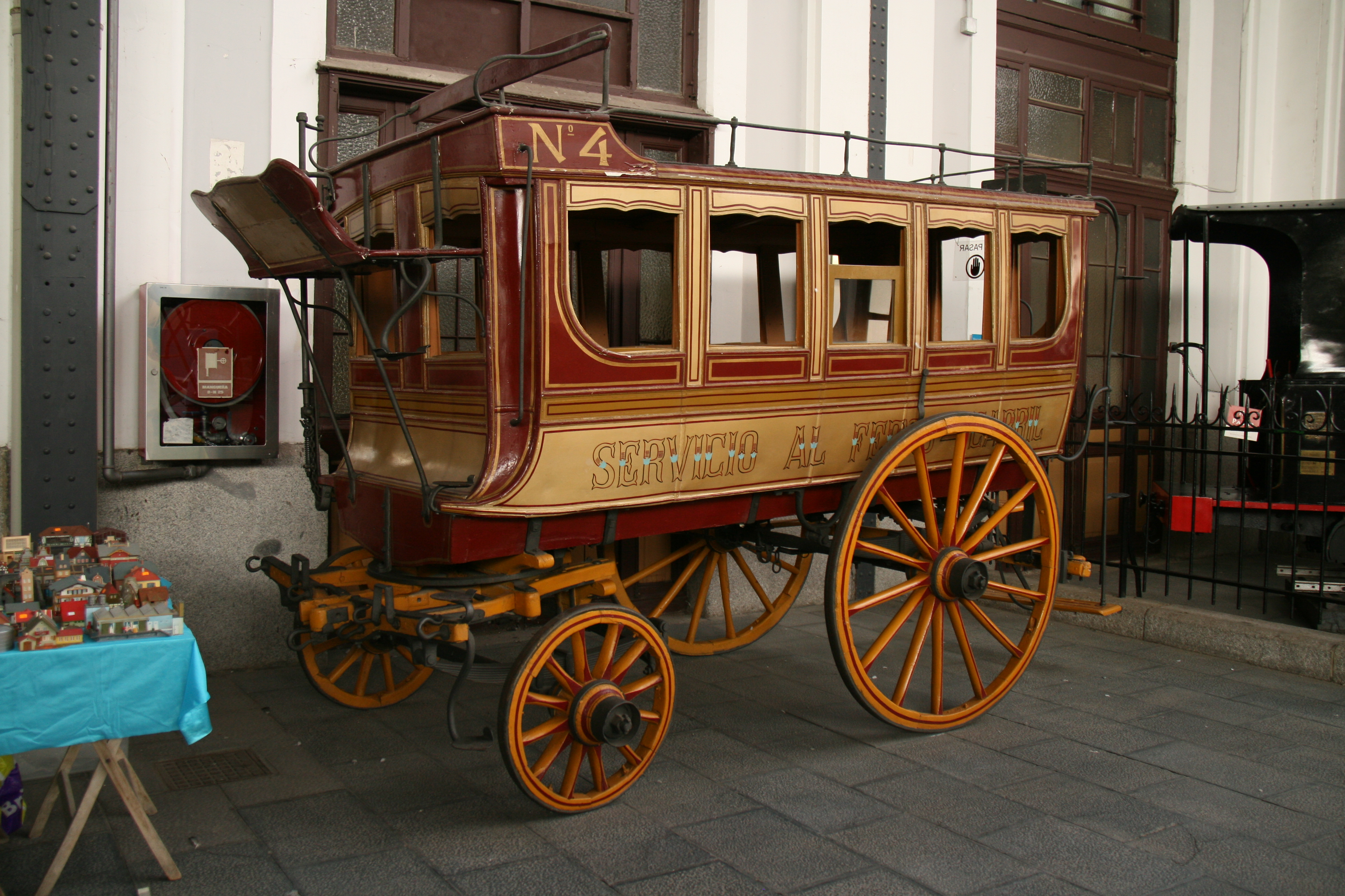 carriage